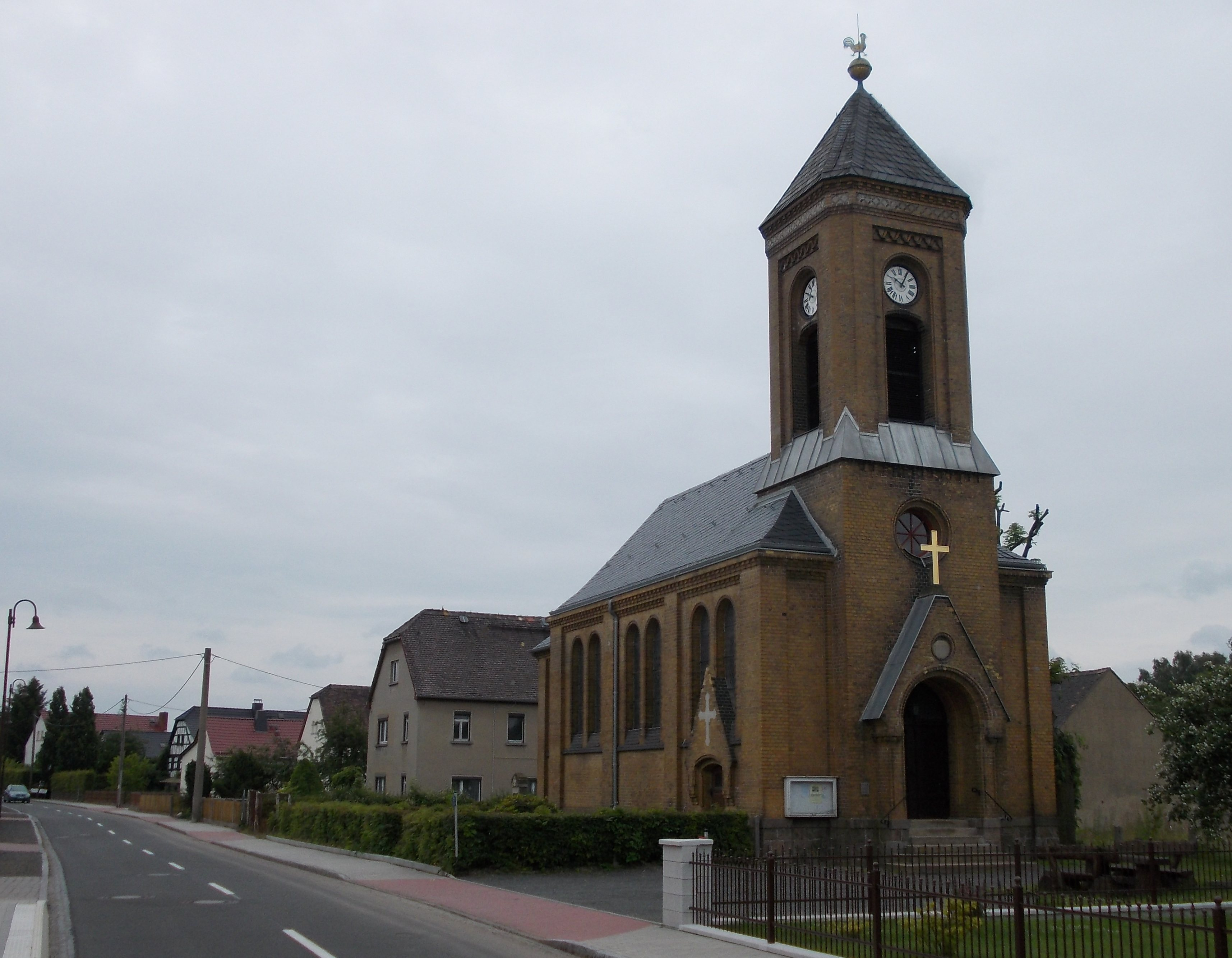 Rohrbach church (Belgershain, Leipzig district, Saxony)